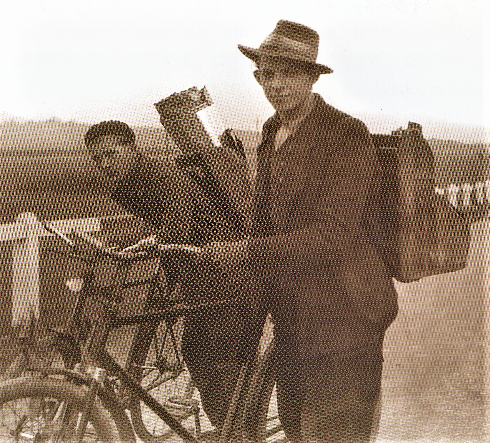 Romanian tinkers